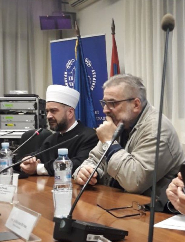 Reis ul ulema and Branko Rakić